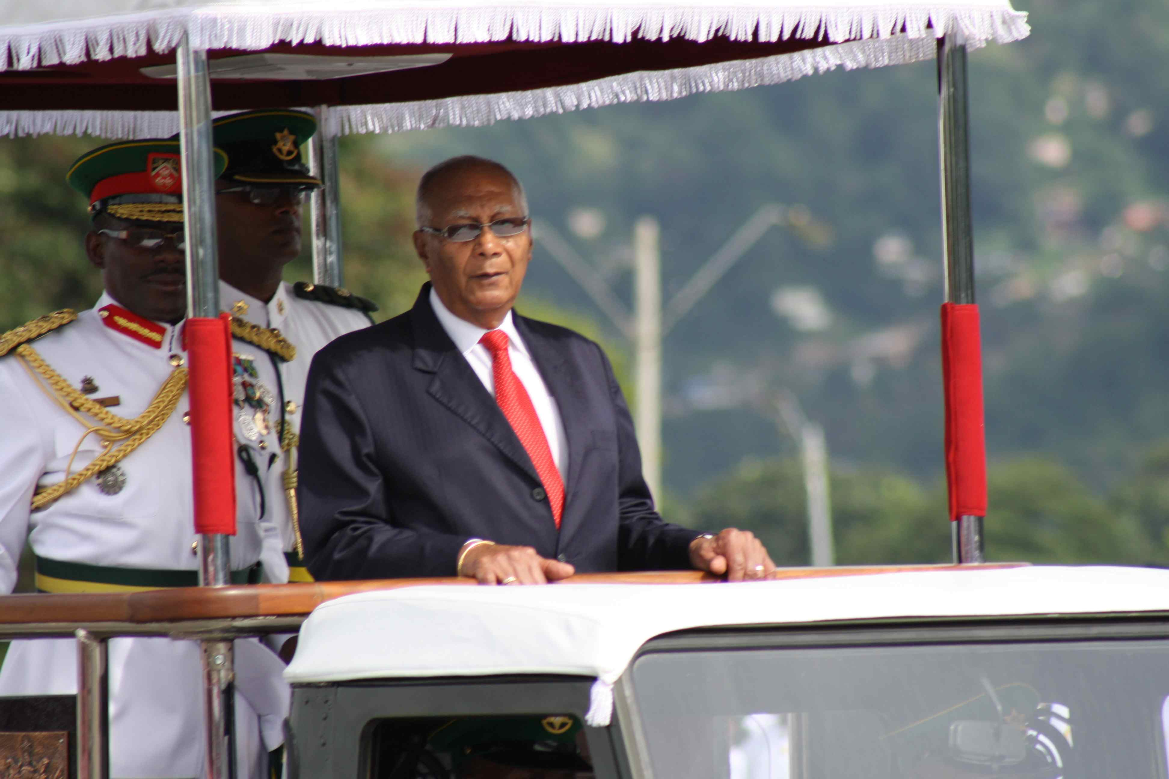 George Maxwell Richards in 2010, former President of the Republic of Trinidad and Tobago (2003-2013). At the Independence Day Parade in the Queen's Park Savannah, Port of Spain.